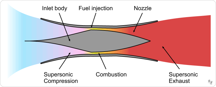 Diagram of principle of operation of a scramjet engine.